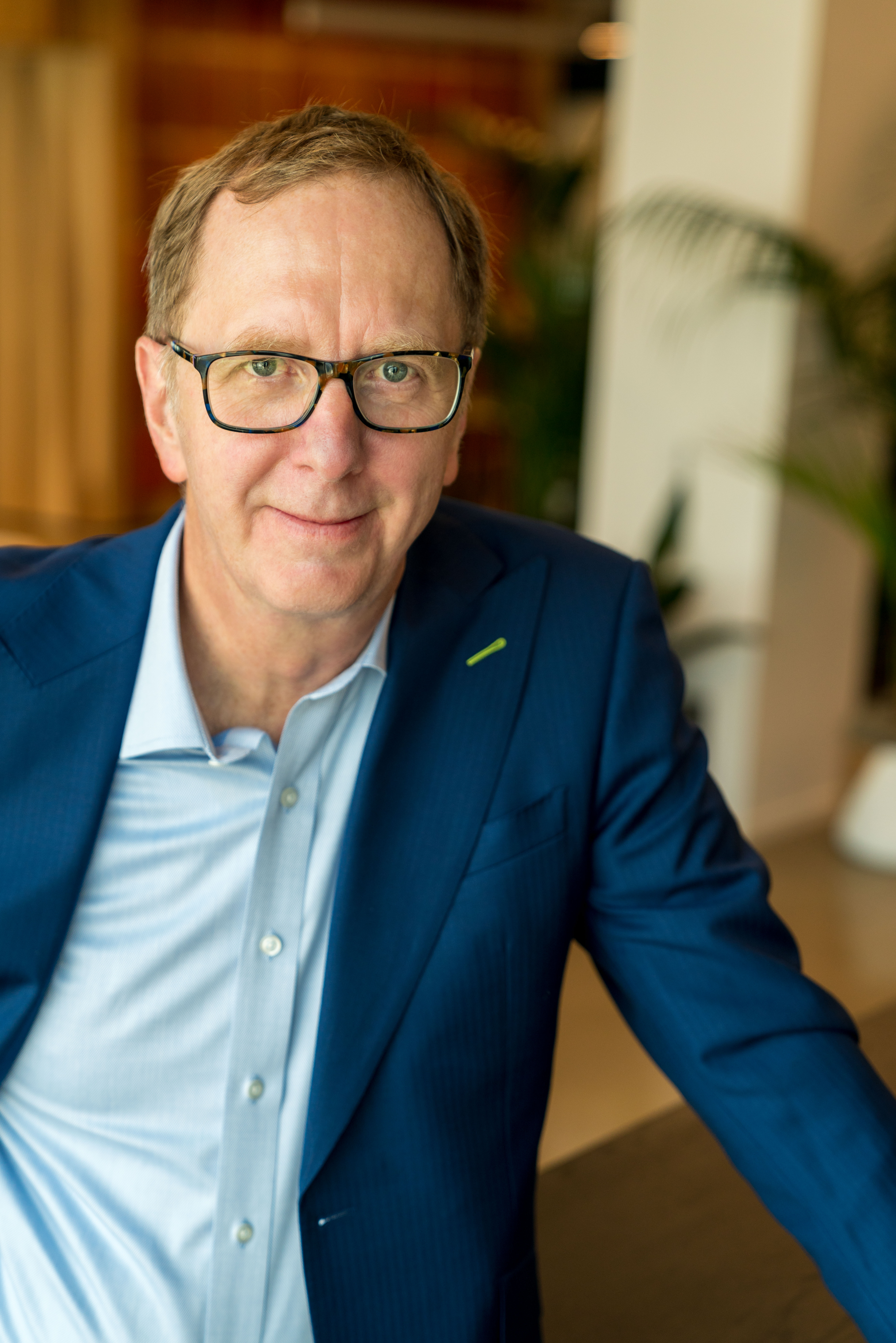 CEO RL Leaders